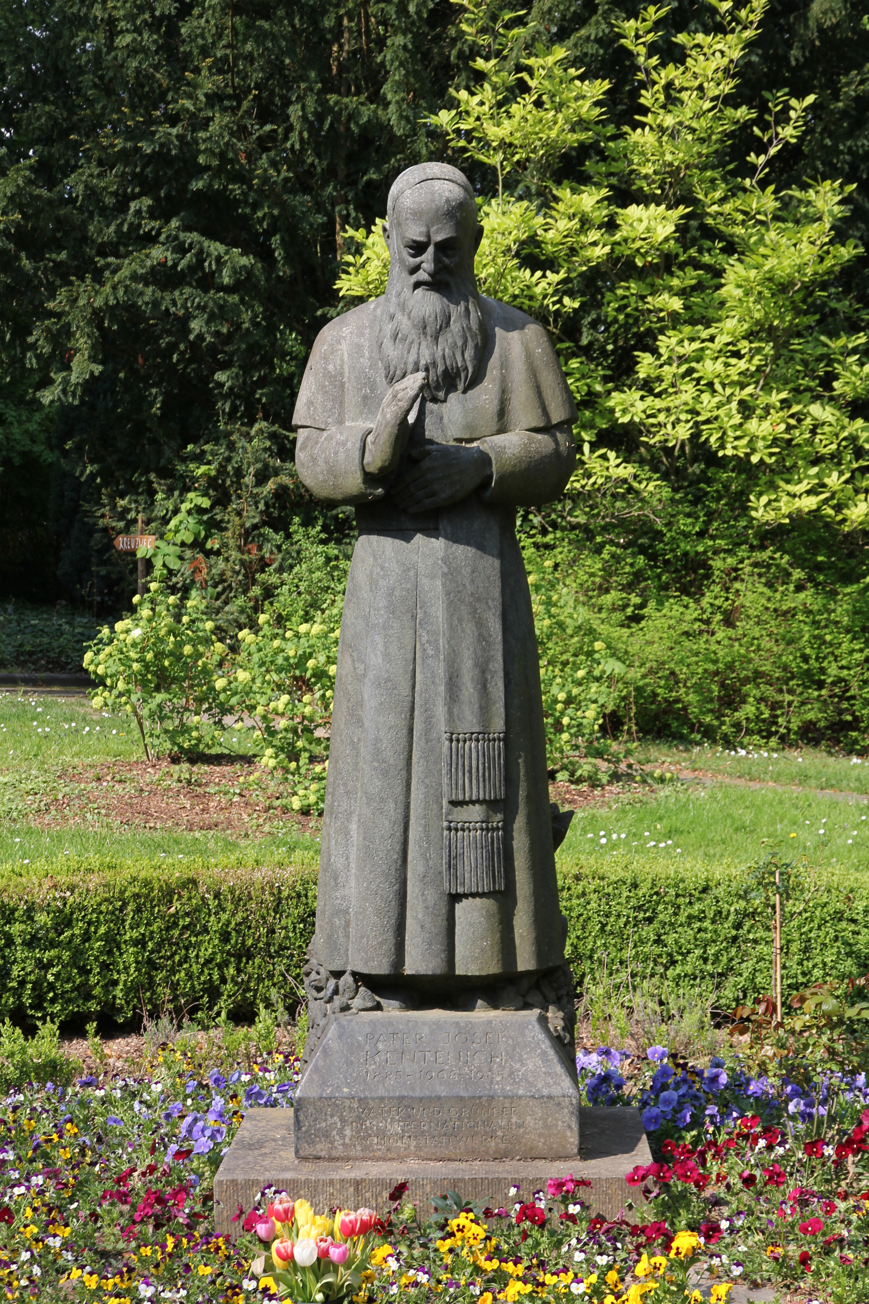 Weidtman Castle in Koblenz